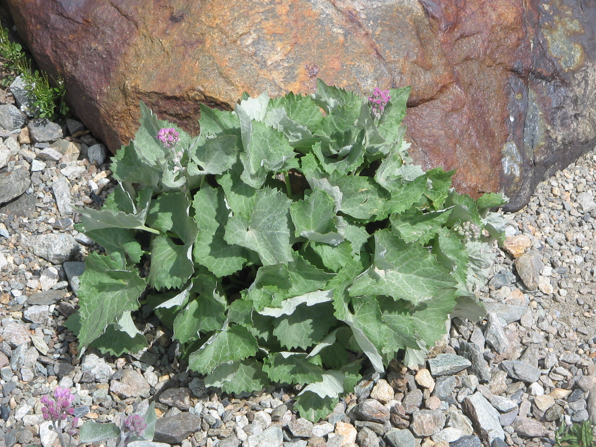 Adenostyles leucophylla leaf